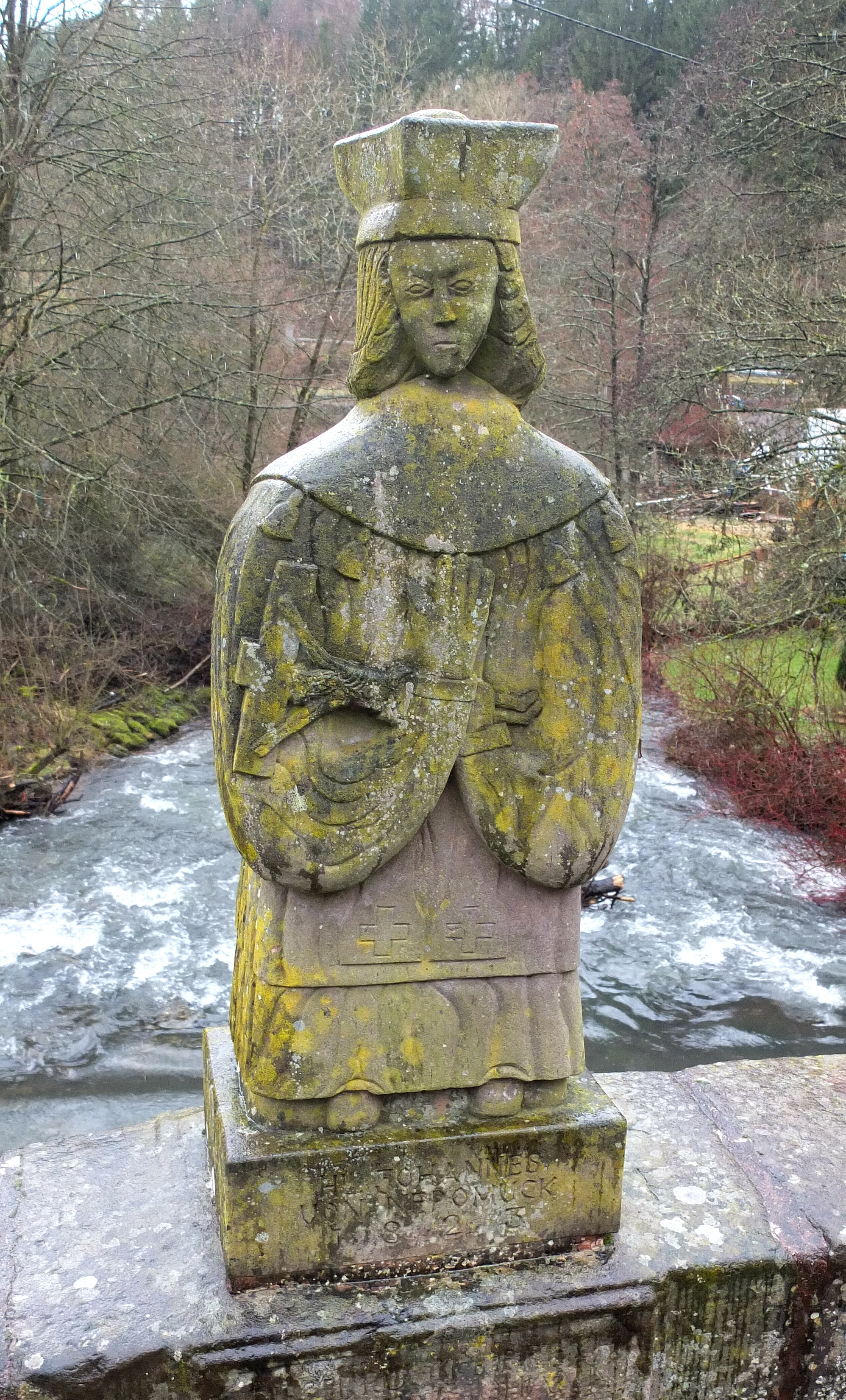 Statue of Saint John of Nepomuk (1823), protector of bridges, erected in Seffern in Rhineland-Palatinate on the bridge across the river Nims.